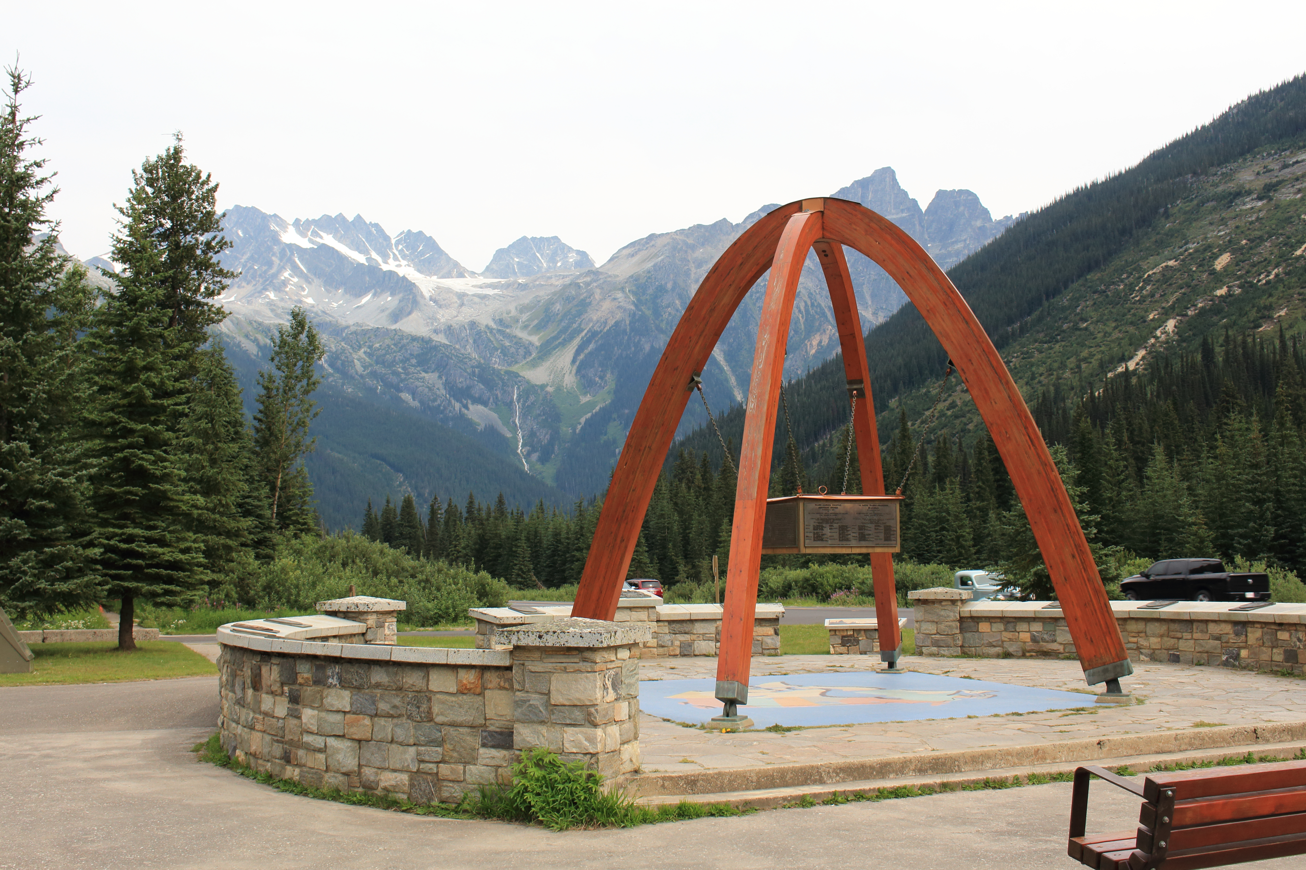 The summit Monument for the Rogers Pass in Glacier National Park of Canada, British Columbia. This is located near the summit of the Rogers Pass.